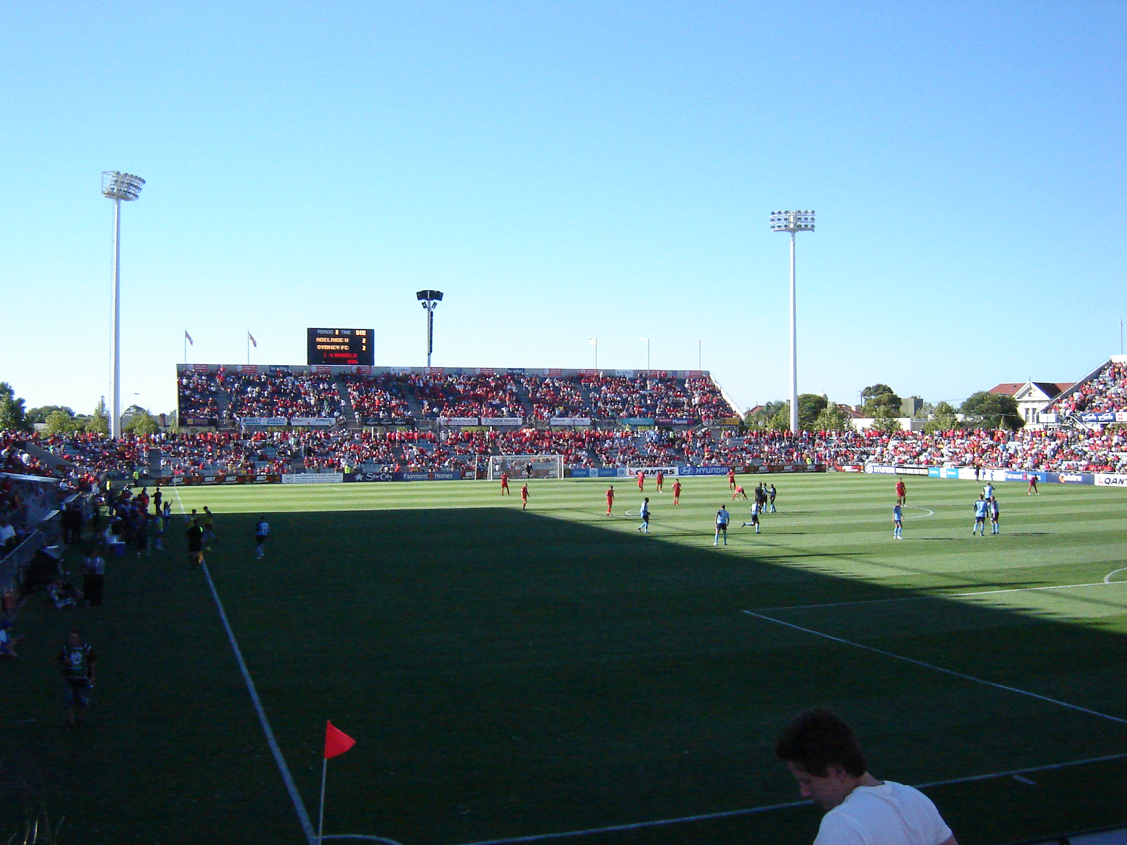 Photo taken (by myself) during Semi-final between Adelaide United vs. Sydney FC on 12/02/06 at Hindmarsh Stadium